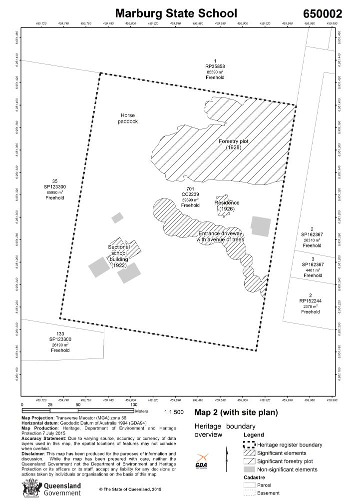 650002 - Marburg State School - boundary map 2 (2015)